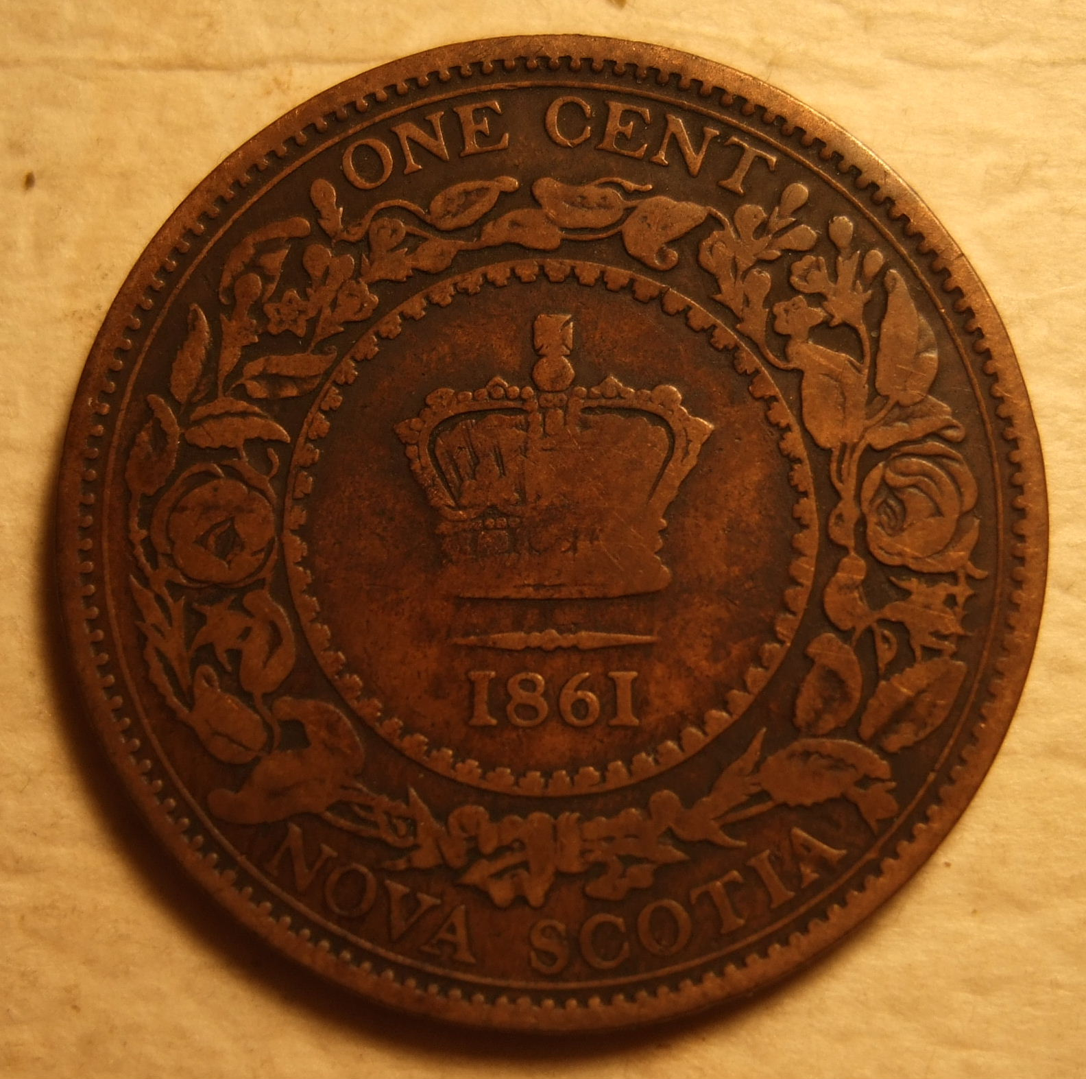 This Nova Scotia one cent coin was issued in Nova Scotia, Canada six years before Canada became a nation in 1867.